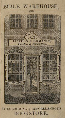 Bible warehouse, and theological & miscellaneous bookstore. Cornhill no. 53. Lincoln & Edmands, printers & booksellers.